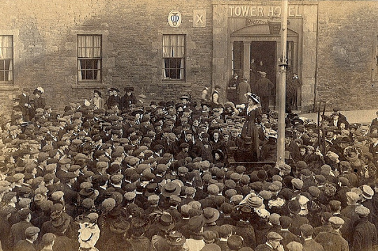 1909: Swindon Suffragette Edith New at Hawick, Scotland